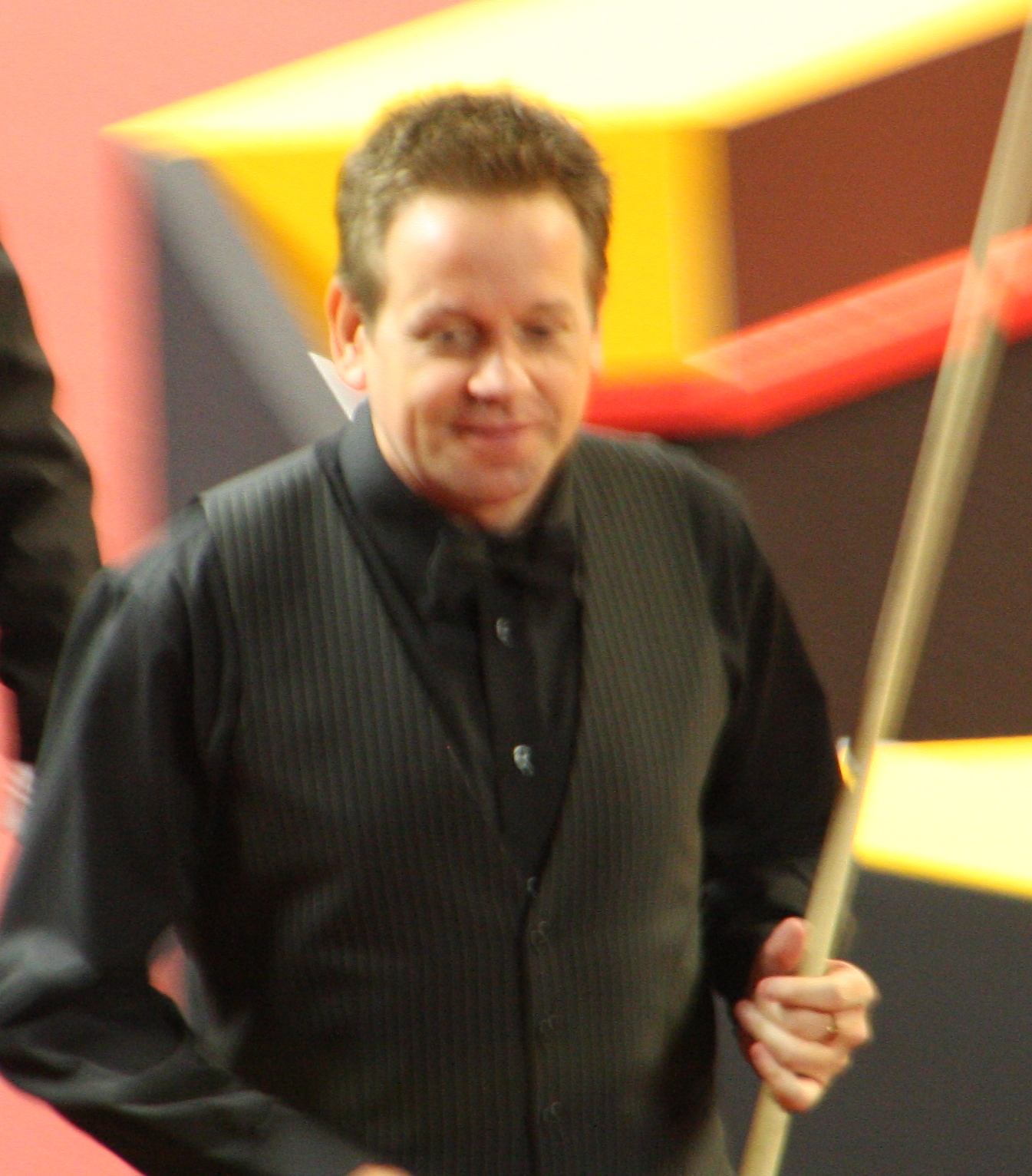 Snooker player Joe Swail at the German Masters 2011